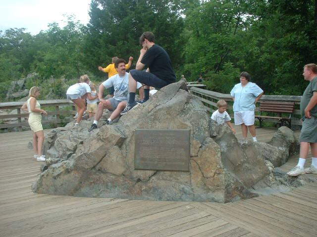 A tourist walkway is shown here embedded in a rock on Olmsted Island, Maryland.